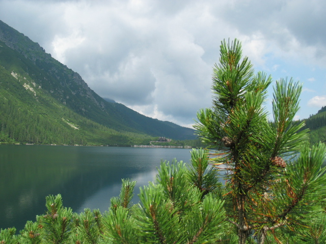 I took this photo.